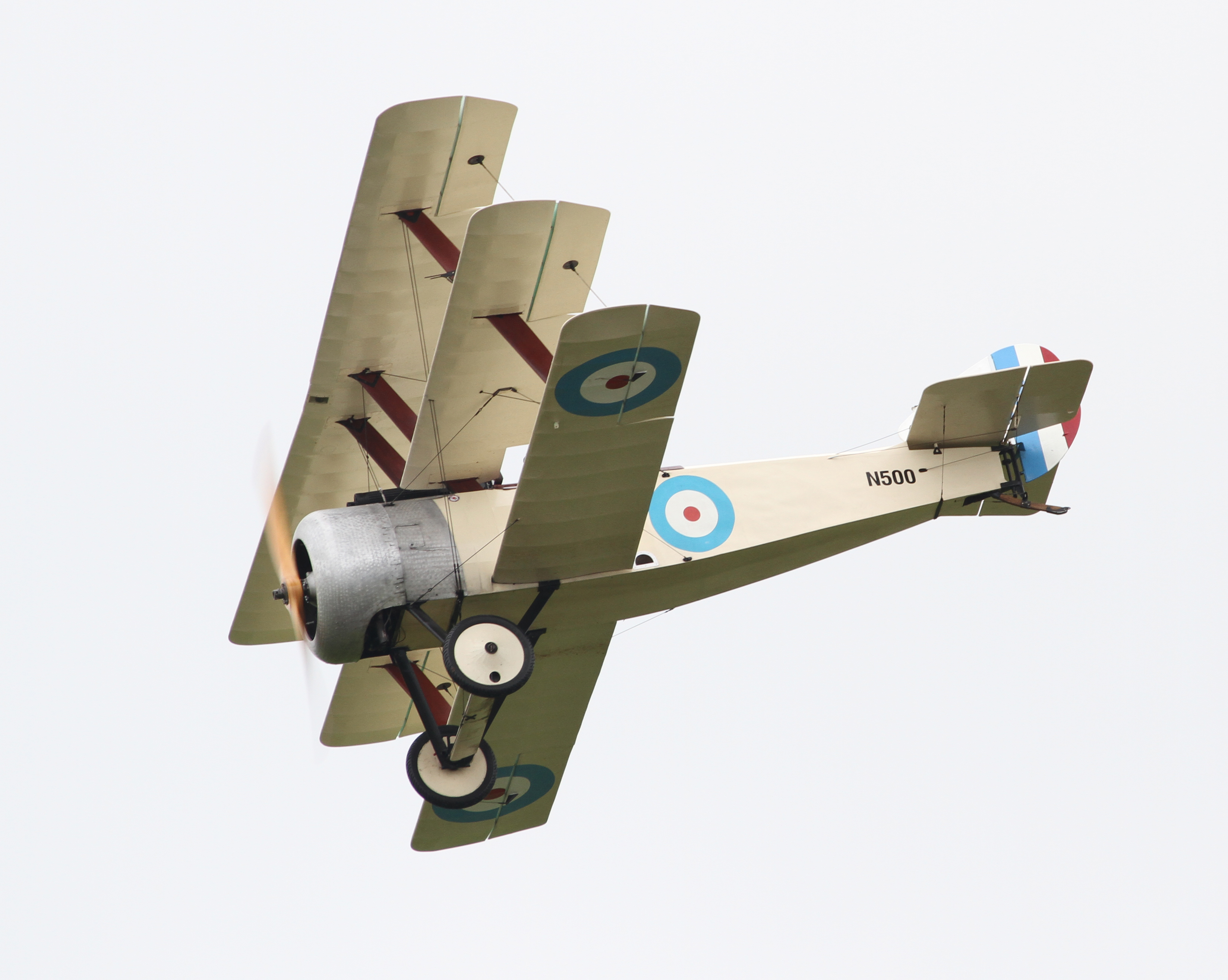 Great War Aircraft Cosford 2016 Airshow